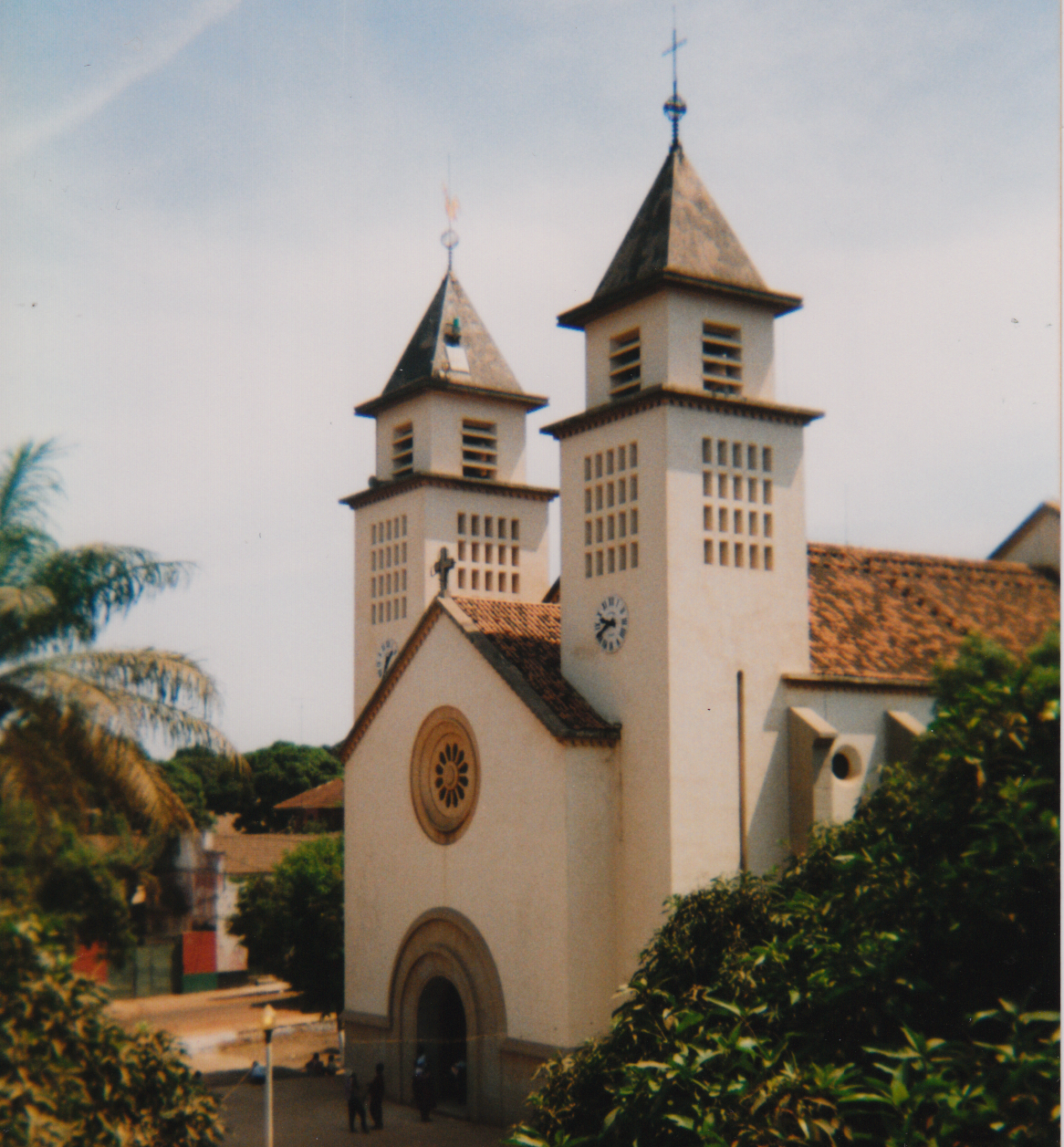 Cathedral of Bissau - cropped for DYK